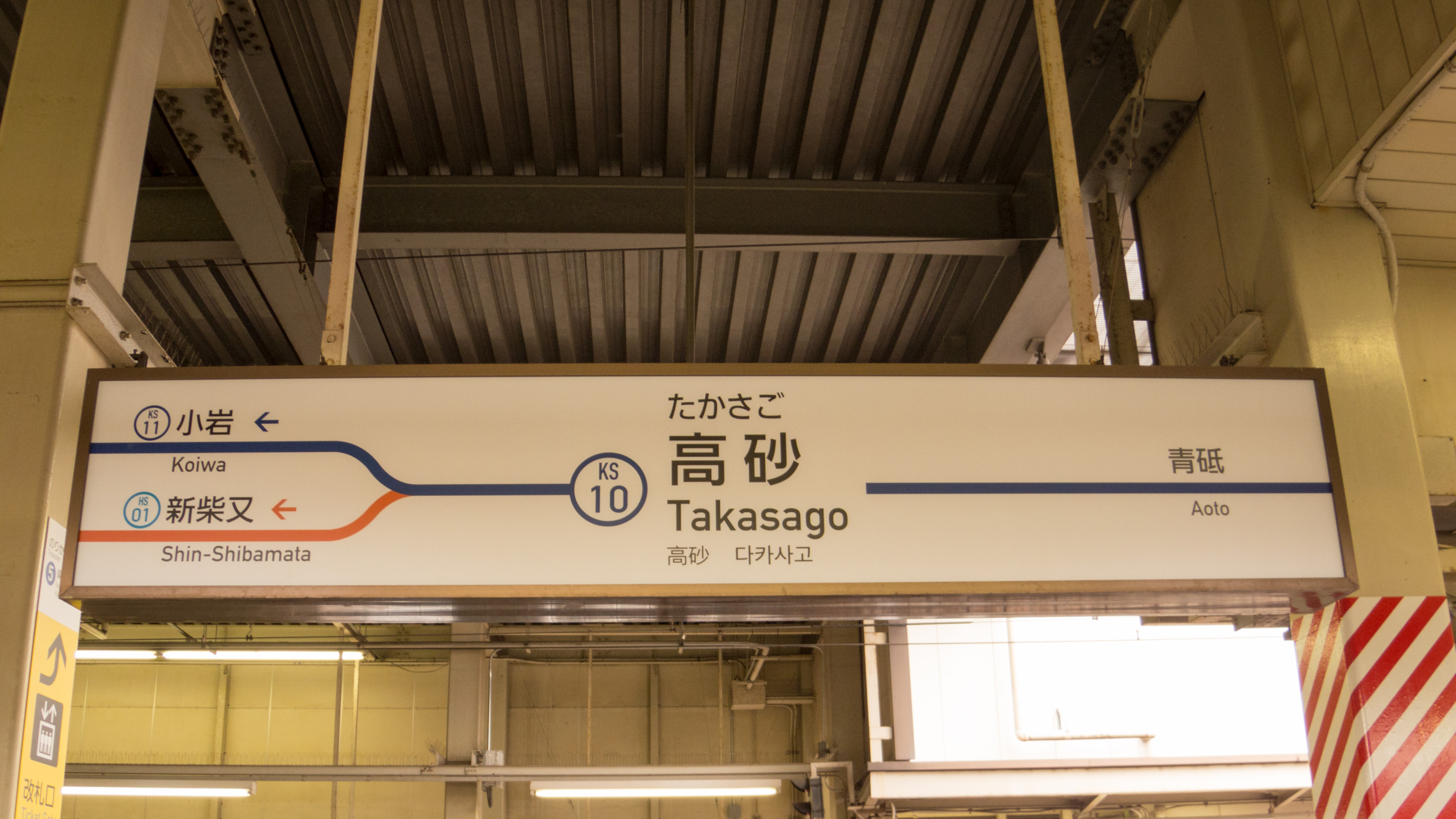 A sign of Keisei-Takasago Station(For Keisei-Koiwa / Shin-Shibamata)